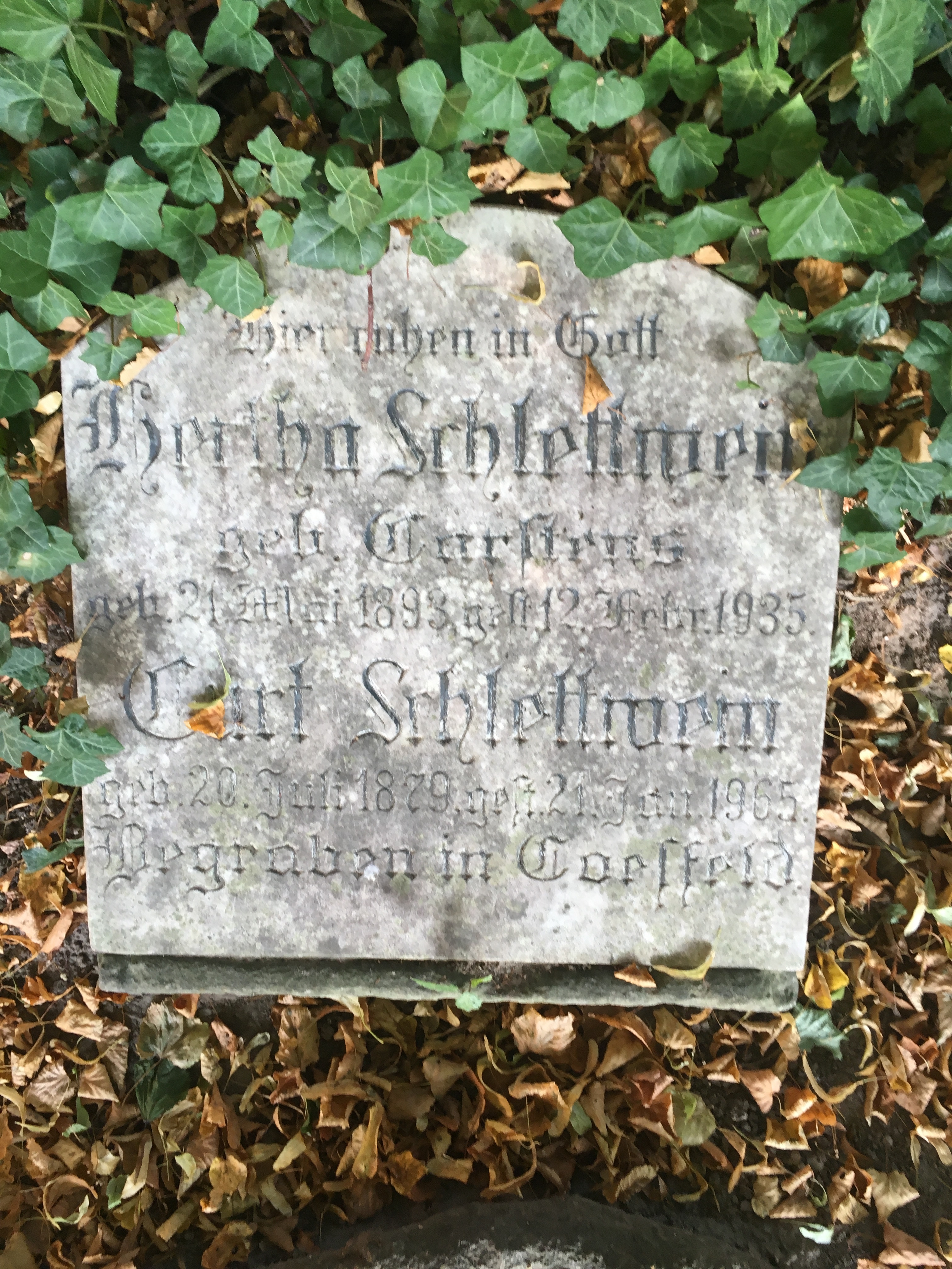 Burial of the Schlettwein family on the churchyard of the church in Petschow.